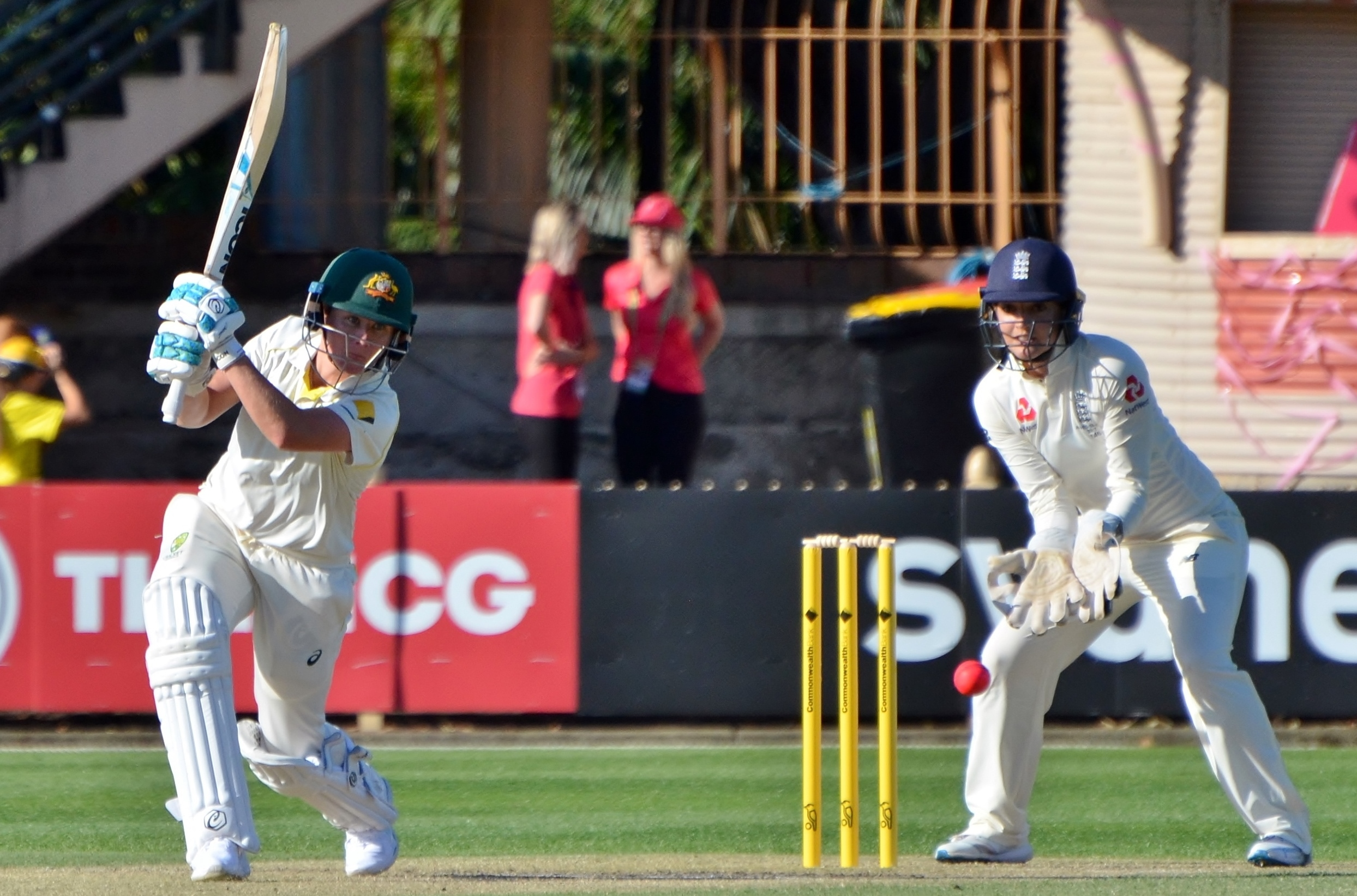 Beth Mooney batting during the 2017–18 Women's Ashes Test at North Sydney Oval. The wicket-keeper is Sarah Taylor.